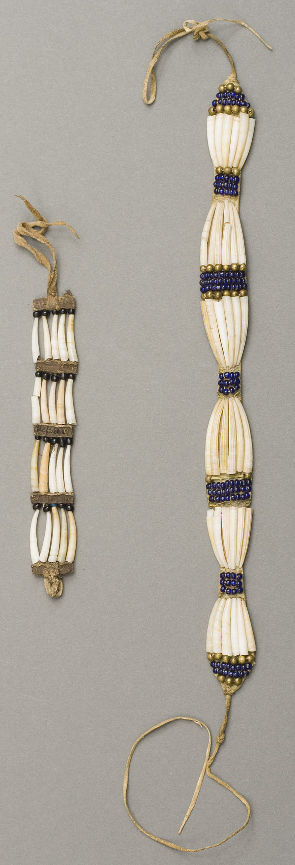 Choker and Bracelet In the Pacific Northwest, dentalia shells were only available from the Pacific coast of Vancouver Island. They were an indicator of wealth and were highly prized. Dentalia shells were used as decorative elements on clothing accessories and for personal adornment. The wawáq’aqt or choker is from the Rydryck Collection, combines dentalia shells, blue glass beads and brass beads sewn onto a single piece of leather with buckskin ties. The bracelet on the left is from the Spalding-Allen Collection combines dentalia shells, black pony beads and leather spacers with buckskin ties. It is assembled with sinew. Choker Plateau c 1875-1900 Shell (Dentalium pretosium), glass beads, sinew, brass beads. L 33 cm. Nez Perce National Historical Park, NEPE 2194 Bracelet 1830s Shell (Dentalium pretosium), glass beads, leather. L 26 cm. Nez Perce National Historical Park, NEPE 8762